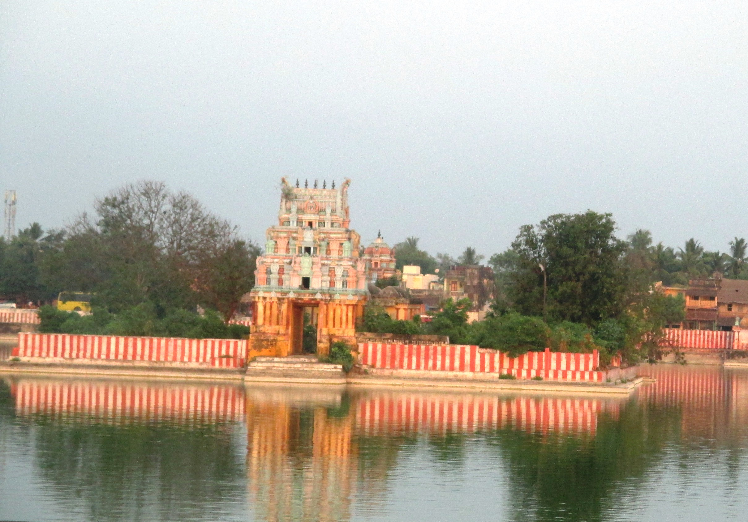 Rajagopalaswamy Temple, Mannargudi